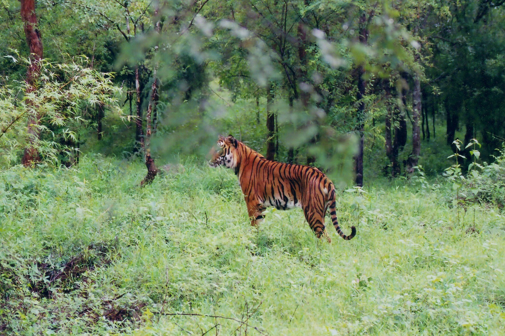 Indian tiger at Bhadra wildlife Sanctuary, Chikkamagaluru district, Karnataka state, India